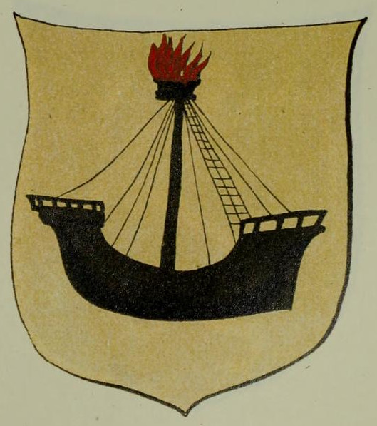 A nineteenth-century facsimile of the coat of arms of "ye lord of lorn of auld" that appears in Sir David Lindsay's Armorial. The armorial itself dates to the early sixteenth century.